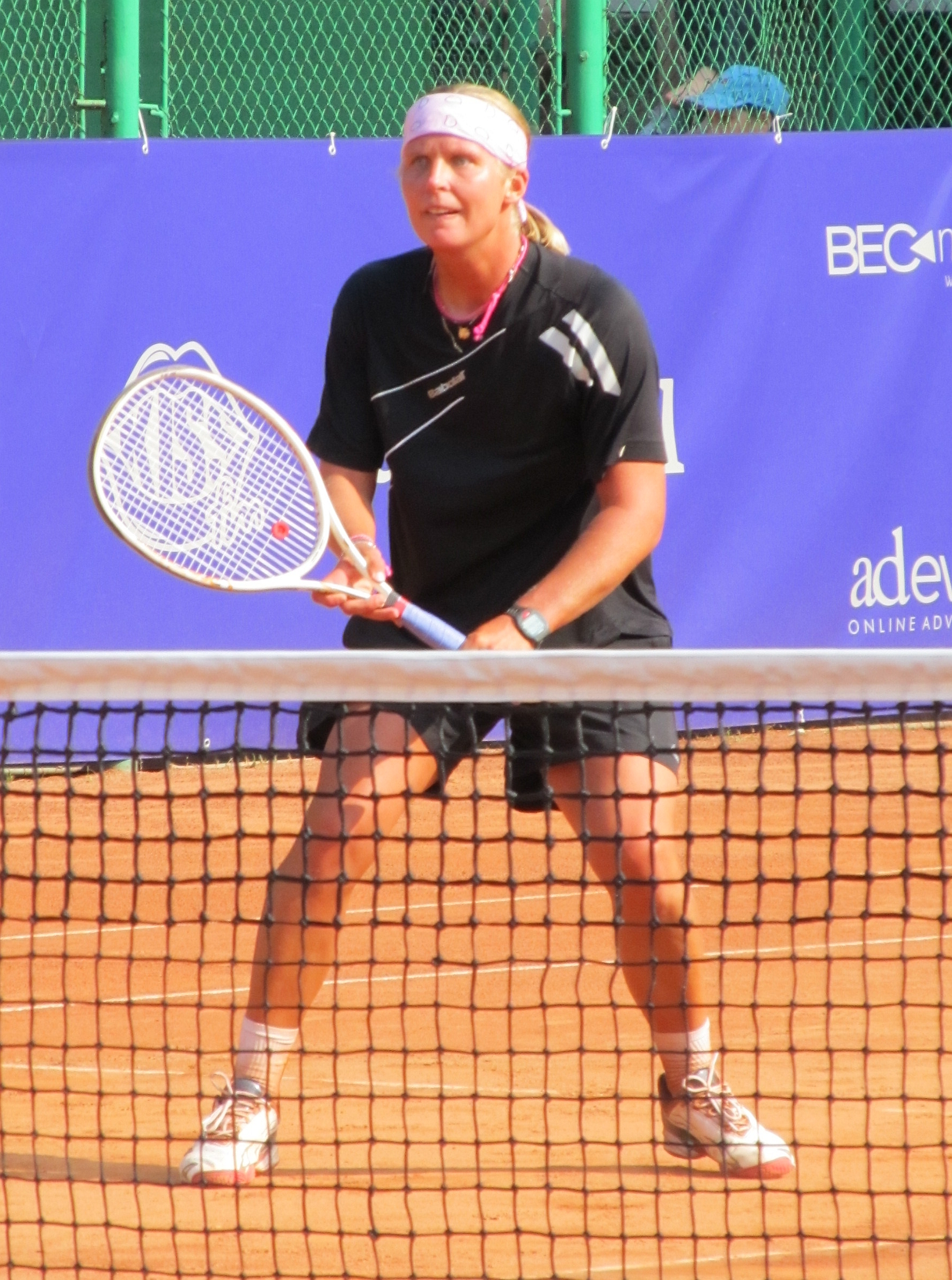 Sandra Klemenschits playing doubles in the first round at the 2011 BCR Open Romania Ladies